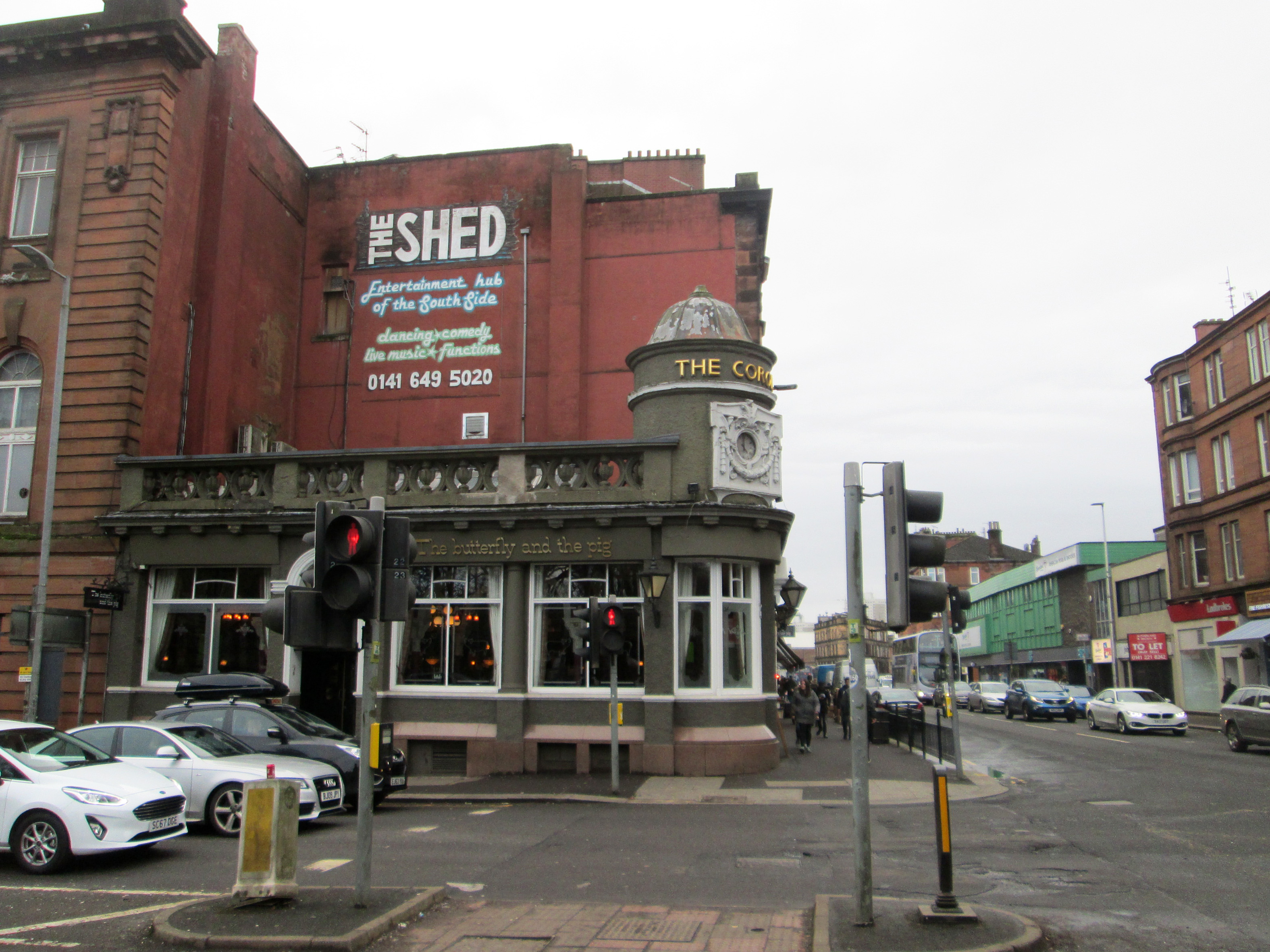 Corona Bar, Crossmyloof, at the location of the original village, at the junction between Langside Avenue and Pollockshaws Road in Glasgow. The 1912 building by James. H. Craigie of the Glasgow architects Clarke and Bell is on the site of earlier pubs – it claims to have been established in 1817. Tiling on the doorstep and plaster image above the doorways show a cross on the palm of a hand, supposedly the origin of the name of the village. Reference: Blaikie, Gerald (2-18). Strathbungo and Crossmyloof : Origins and History. .